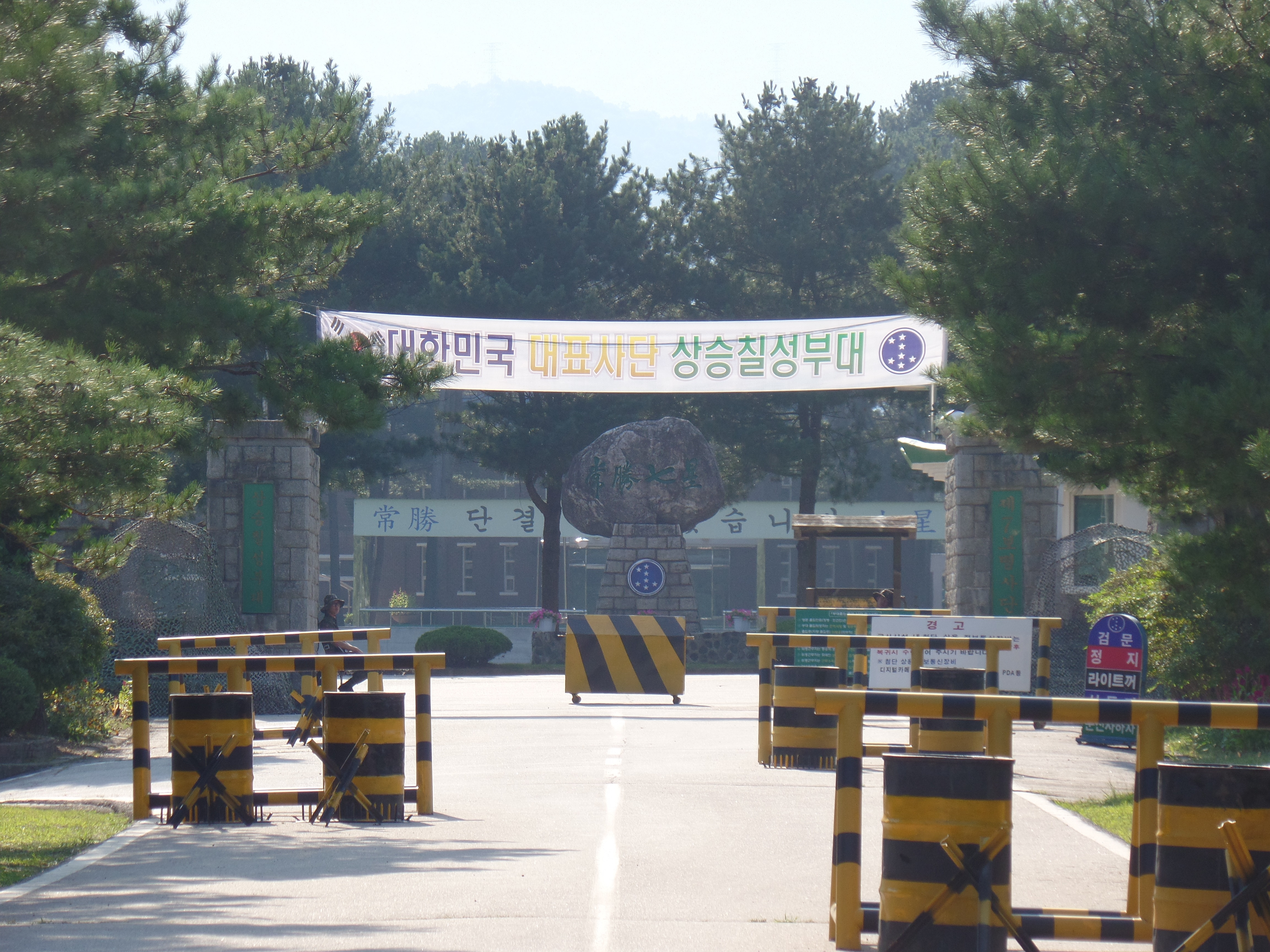 Main gate of Republic of Korea Army 1st Infantry Division Headquarters